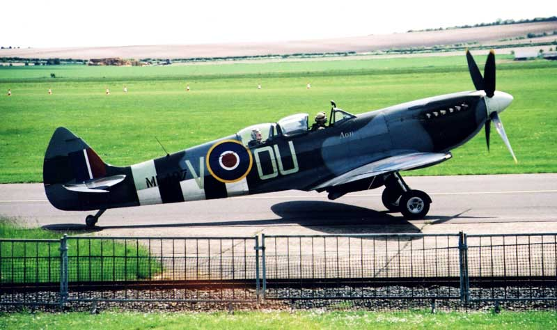 Duxford, 2001. Preserved T Mk IX trainer ML407, owned and operated by Carolyn Grace in the colours of No. 485 Squadron RNZAF.